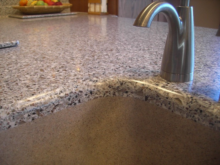 Seamless integral under mount style sinks are unique to the solid surface industry.